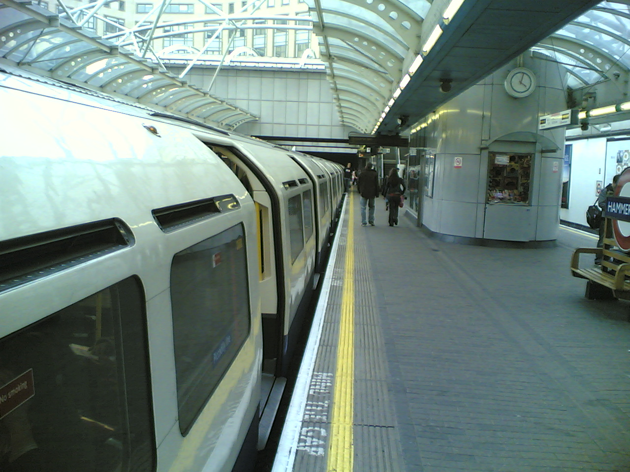 Picture of west station.